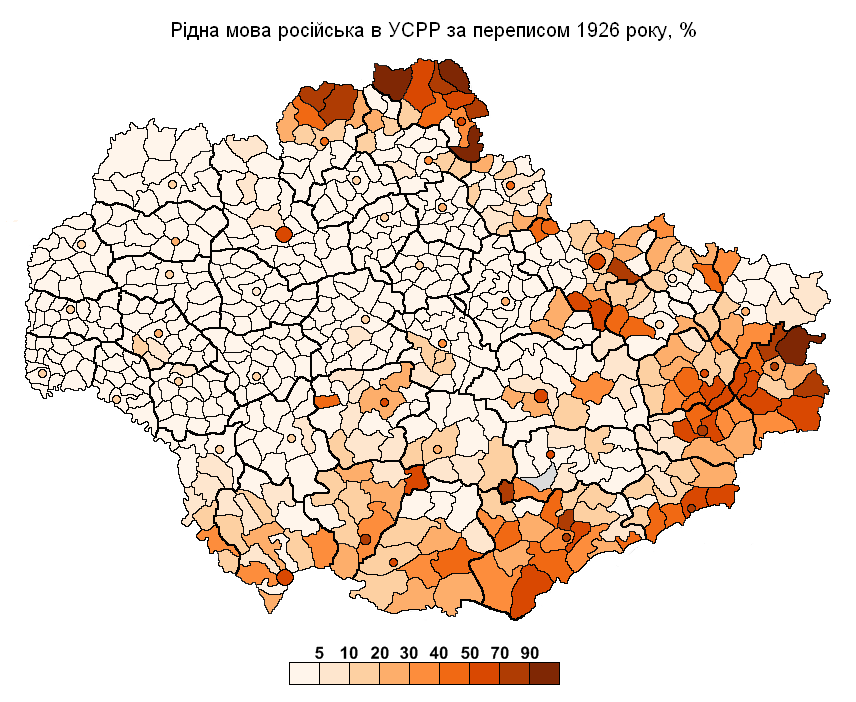 Percentage of native russian speakers in Ukrainian SSR by raions, 1926 soviet census